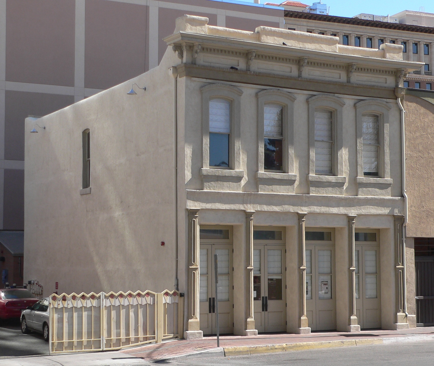 Arizona Star building, located at 30 N. Church Avenue in Tucson, Arizona; seen from the northwest.